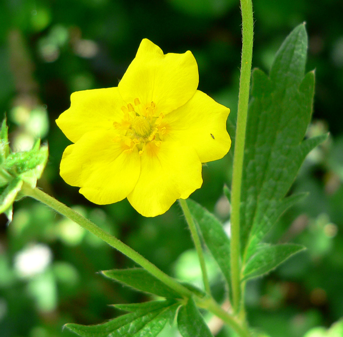 Potentilla gracilis at the University of California Botanical Garden, Berkeley, California